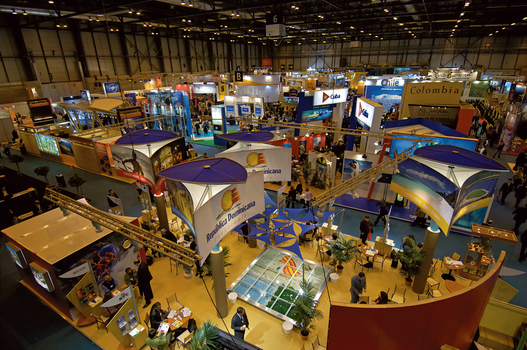 FITUR Trade Fair This photograph can be used for publications, including this copyright statement: “©PromoMadrid, author Max Alexander”. Esta fotografía puede usarse en publicaciones, incluyendo la declaración “©PromoMadrid, autor Max Alexander”.